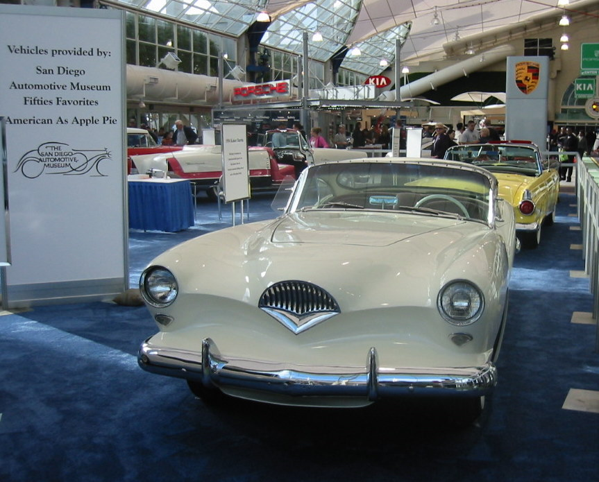 (1954?) Kaiser Darrin (front)